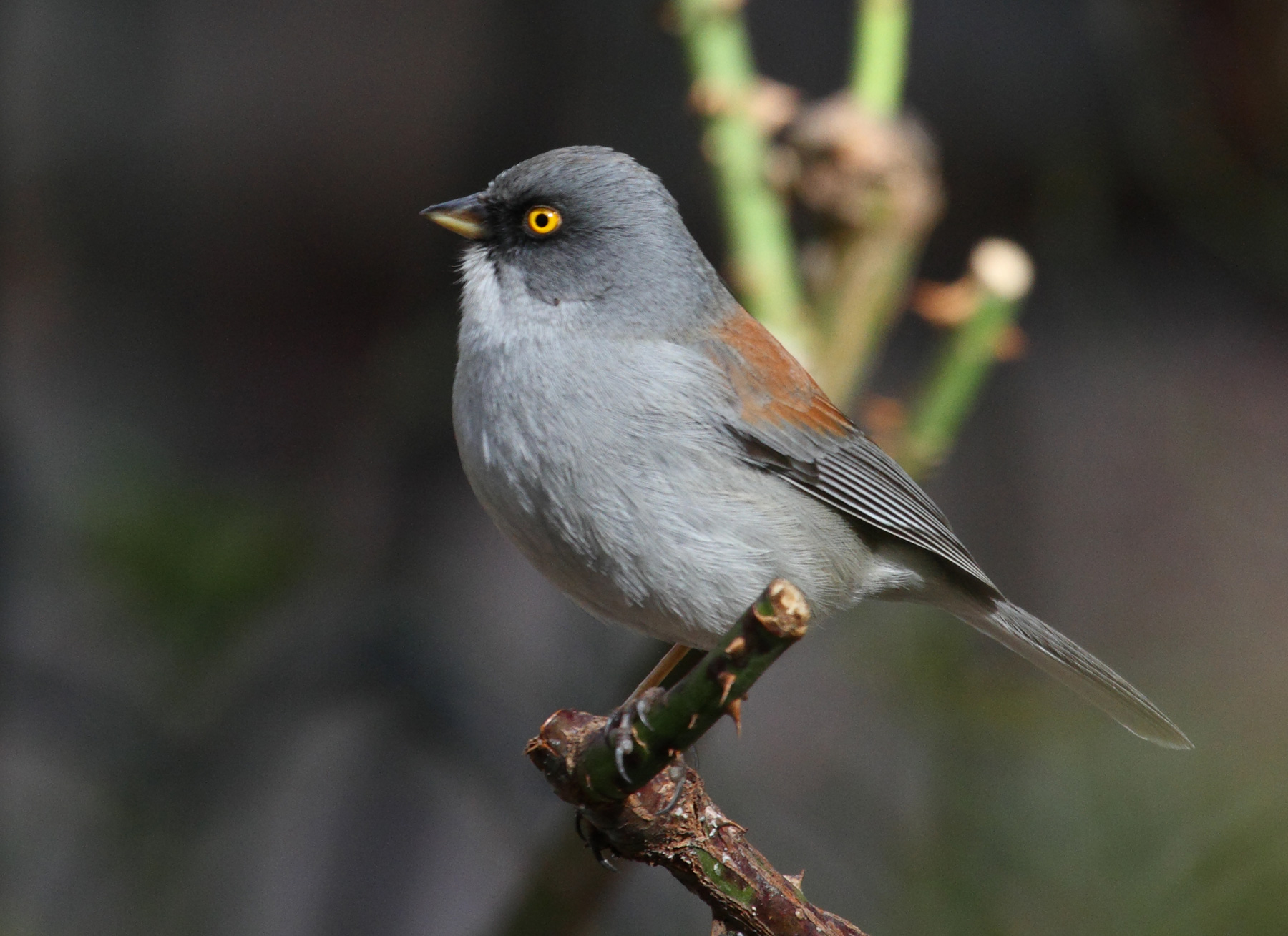 Yellow-eyed-Junco (Junco phaeonotus), Madera Canyon, Arizona